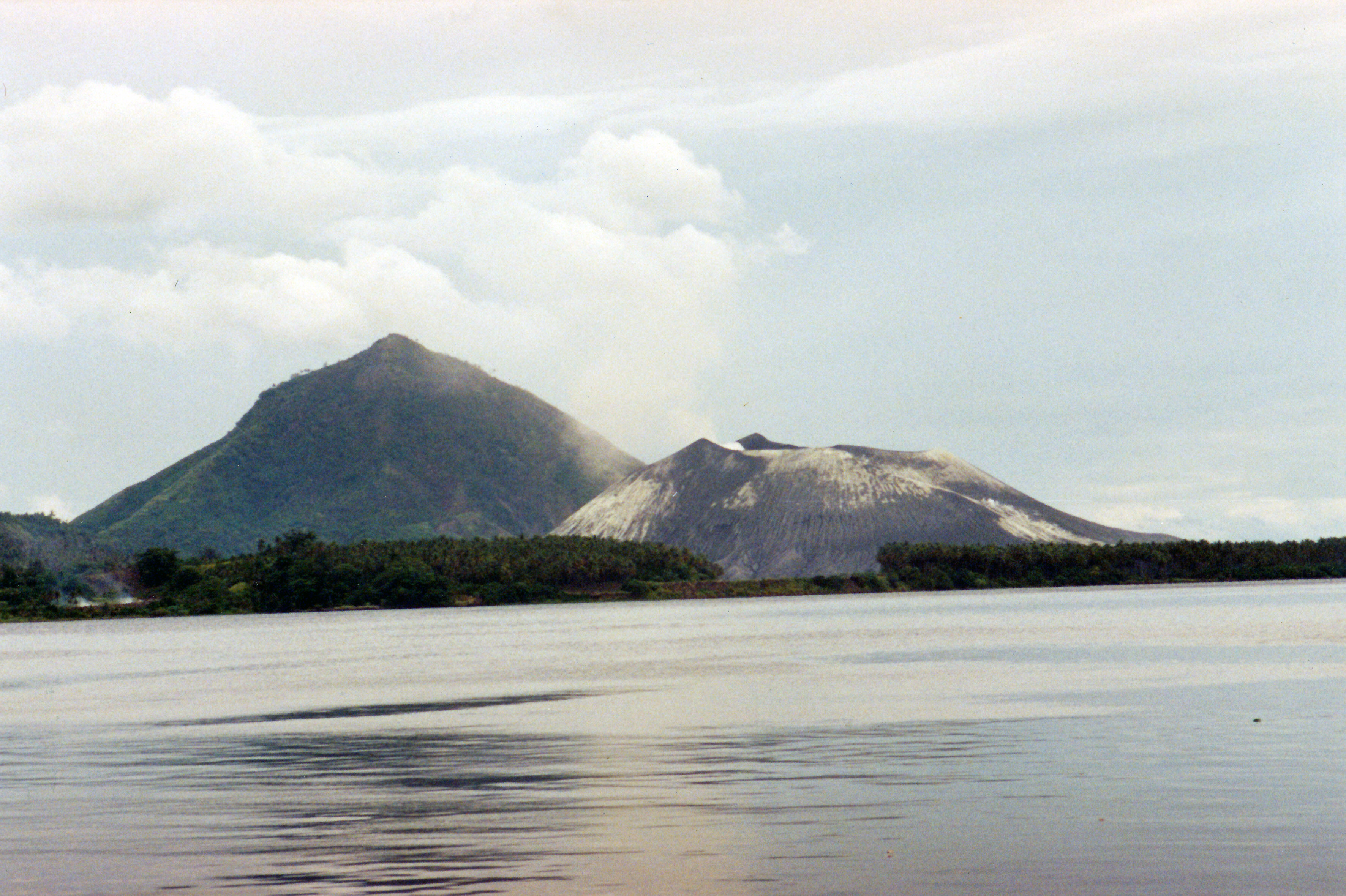 Rabaul volcanos 2011